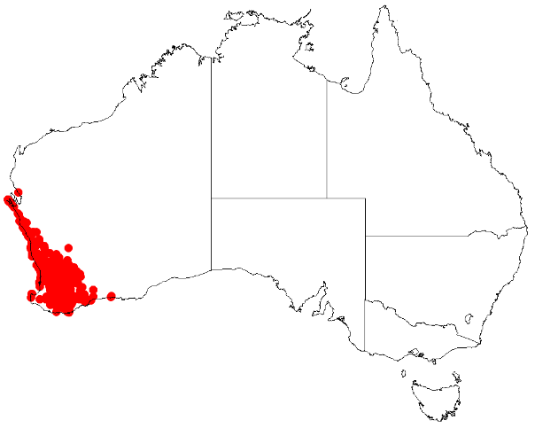 Desmocladus asper Occurrence data downloaded from Australasian Virtual Herbarium on 24 January 2019 using